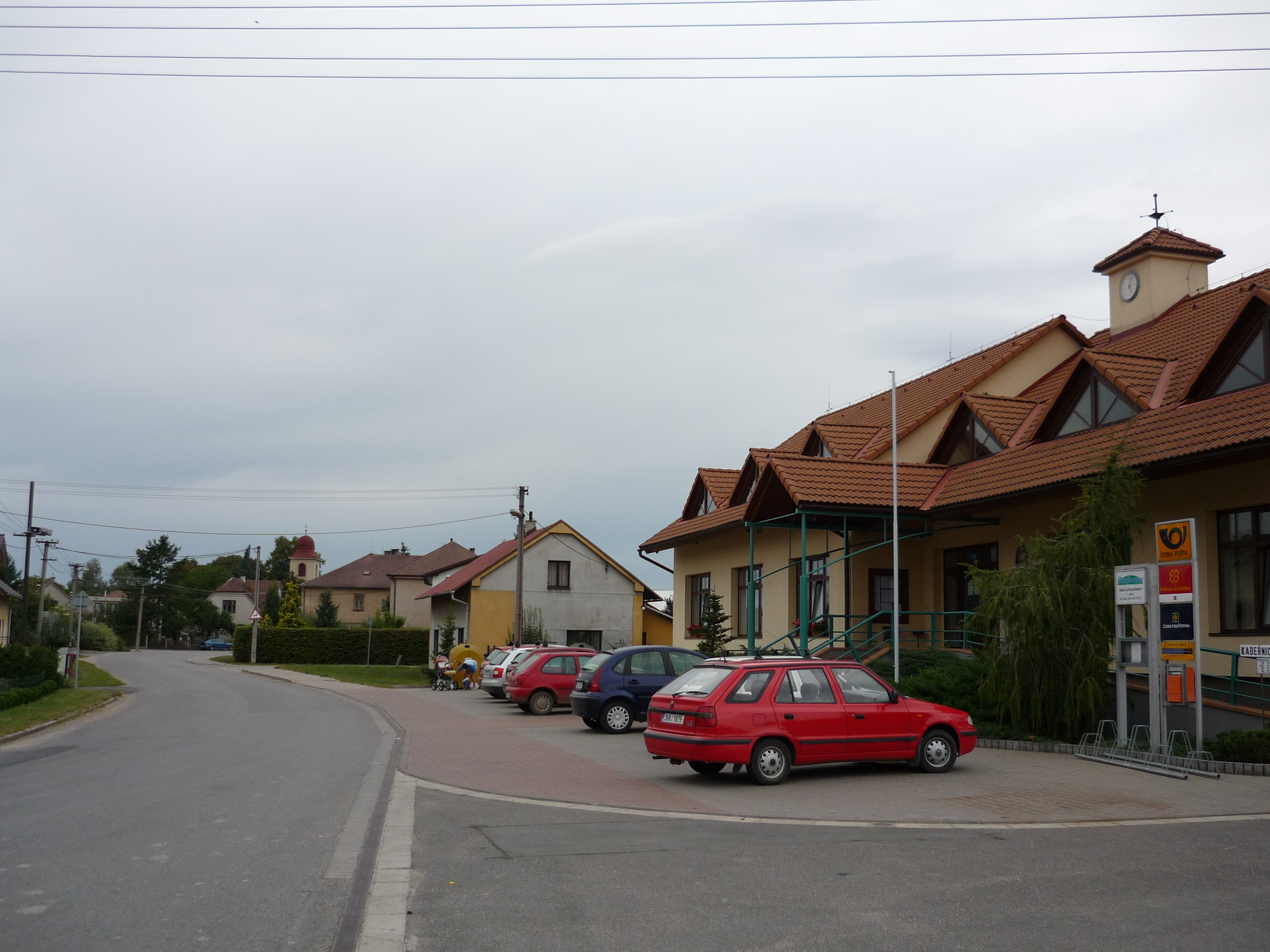 A view at Praskačka (with the Village Hall at right side)